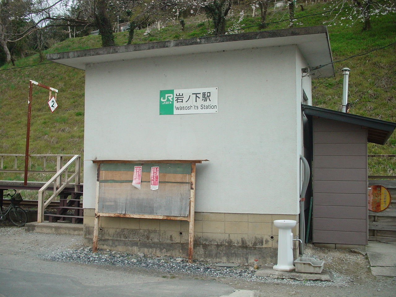 Iwanoshita Station